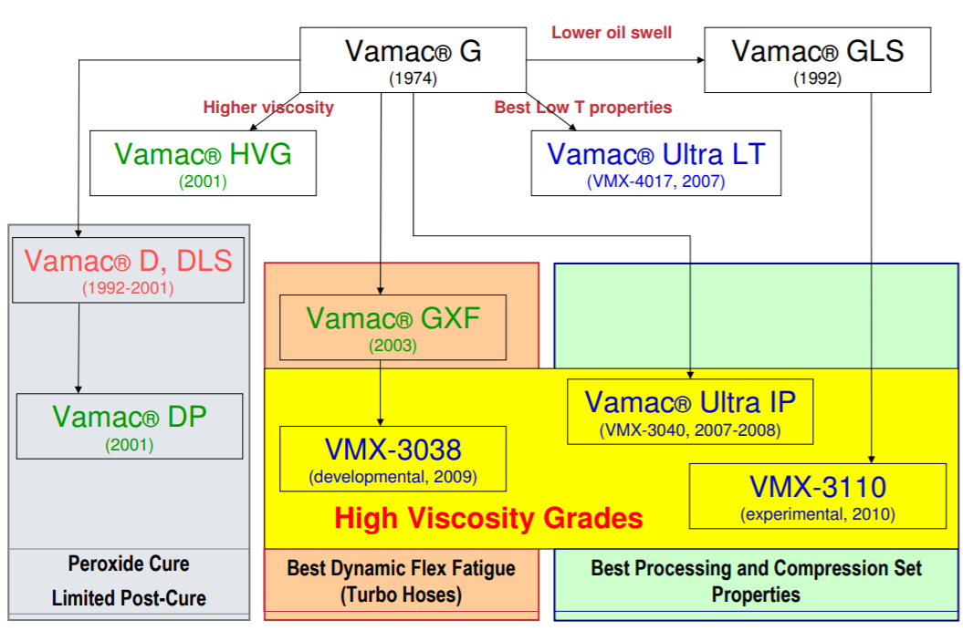 Tipos de VAMAC